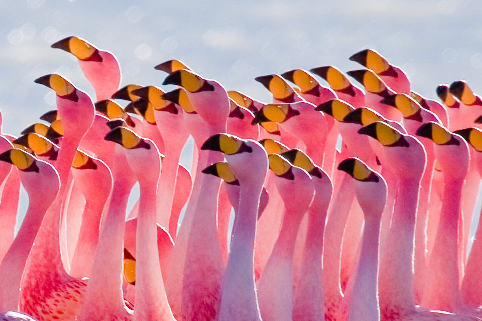 Flamingos Partying, Laguna Hedionda, Potosí